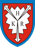 Coat of Arms of Suthfeld First upload in de-wp: Die wilde 13 (14:47, 27. Mai 2007) - Version